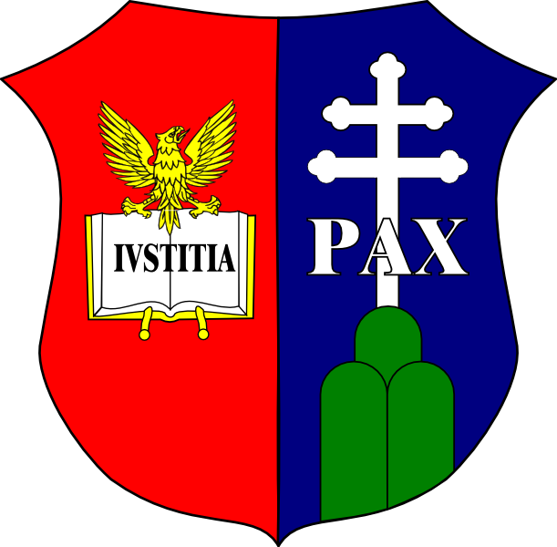 Coat of arms (shield only) of Jusztinián cardinal Serédi, archbishop of Esztergom (1927 - 1945)